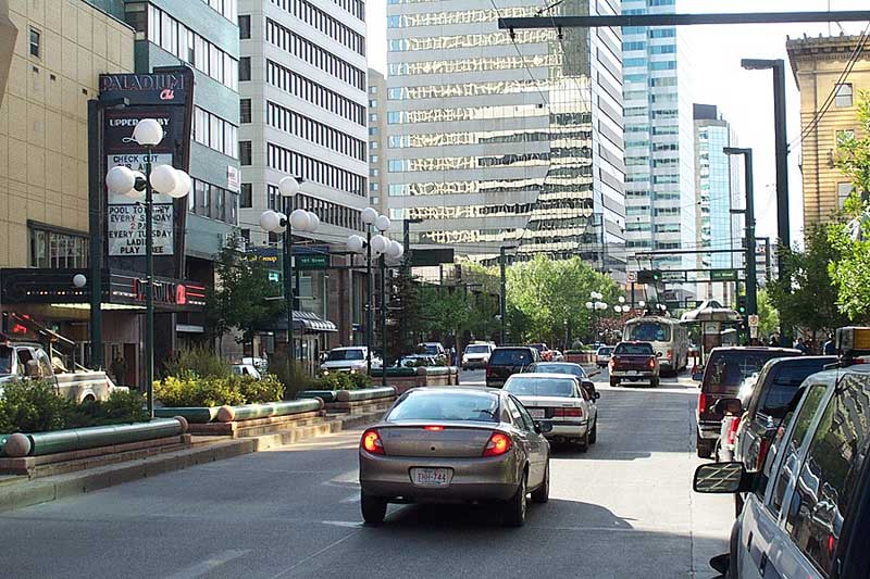 Picture of Jasper Avenue in Edmonton, AB. Taken by uploader, all rights released